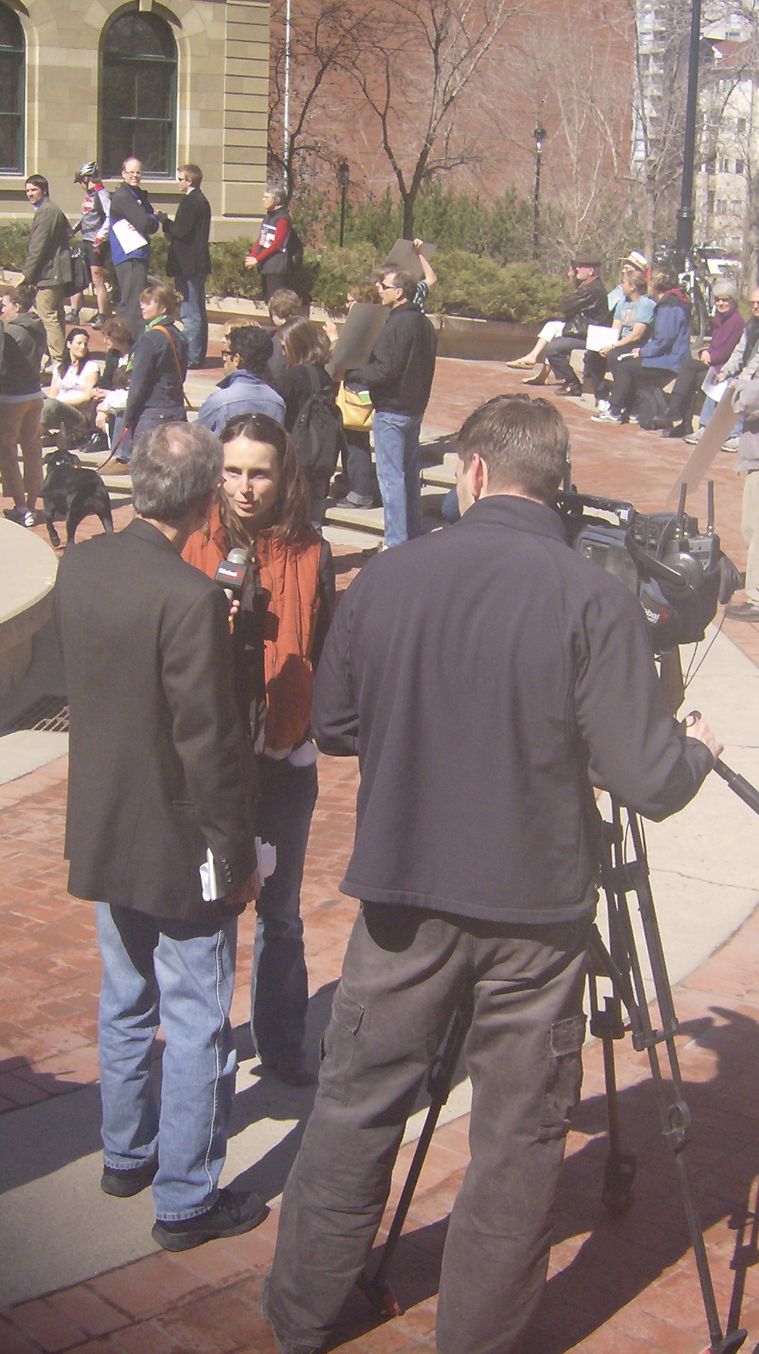 Meghan Beveridge is interviewed by reporter Louis Koutis a TV reporter for Global's Calgary station (CICT). Beveridge is a speaker for the Calgary Riverkeeper organization. This was a rally for "Responsible Land Use and Water" at the McDougall Centre, 455 - 6 Street SW, Calgary, Alberta.